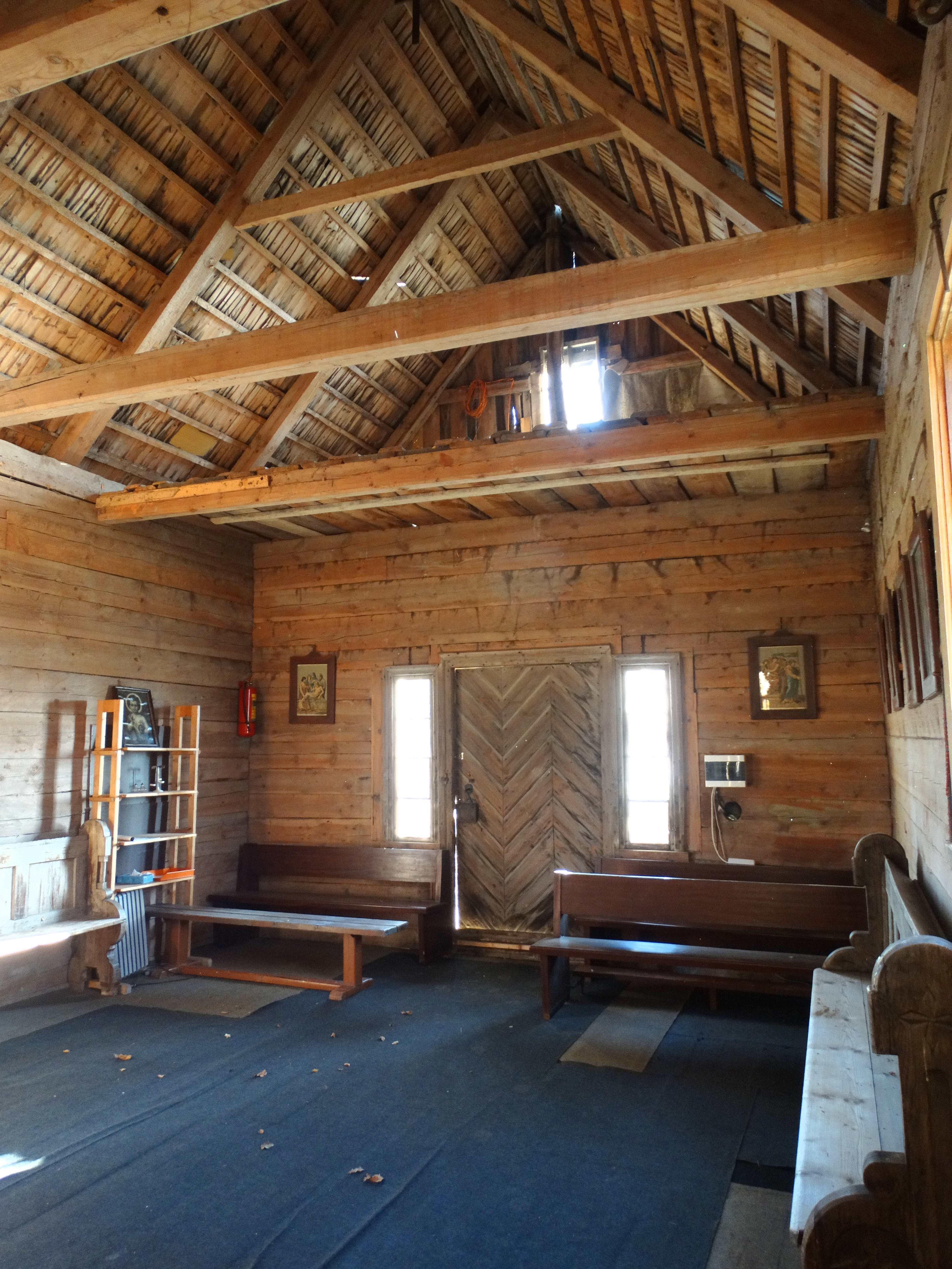 Pakutuvėnai cemetery chapel, Plungė District, Lithuania